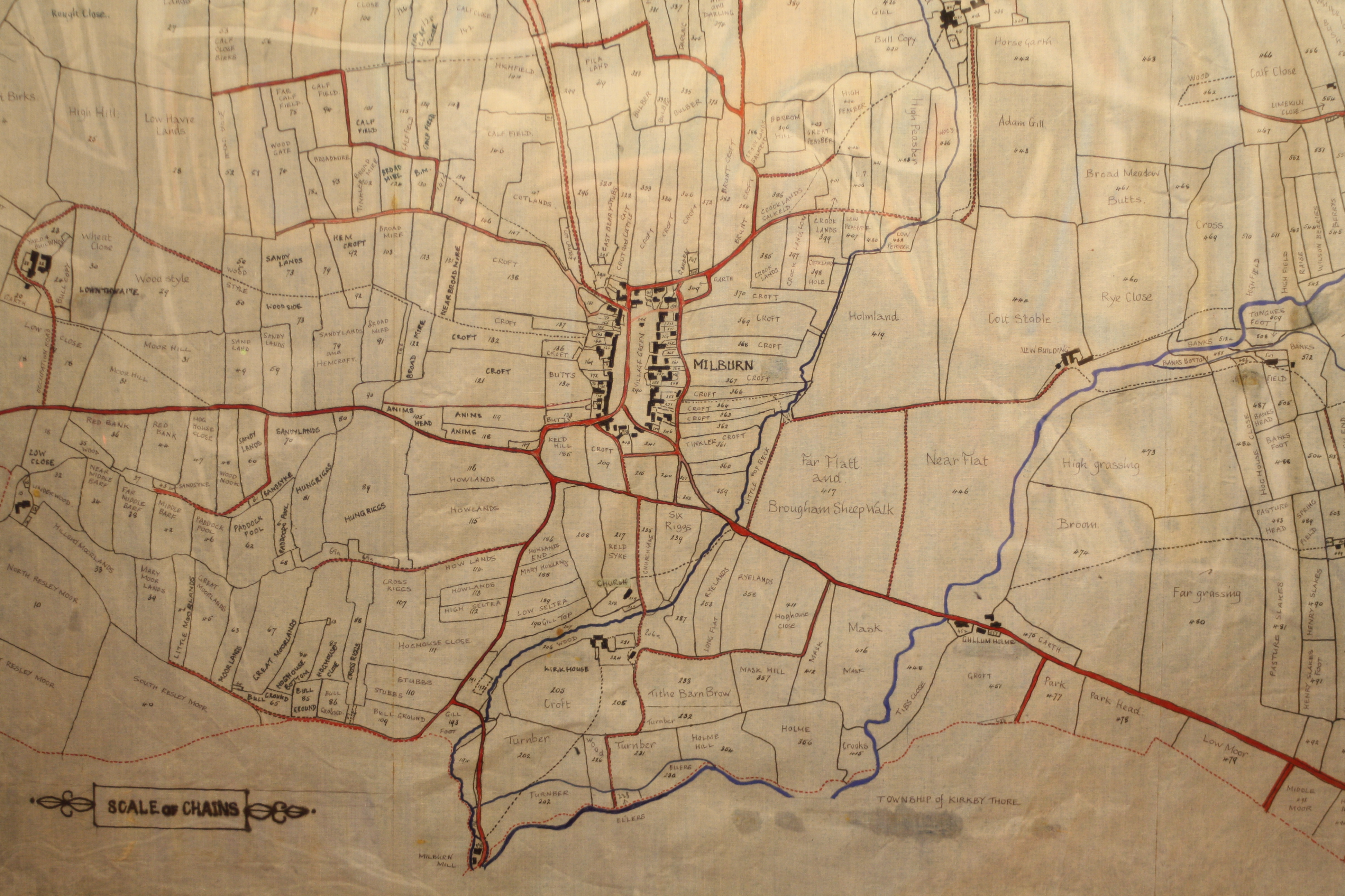 Digital rendition of a map produced by Milburn WI showing fieldnames in the Parish of Milburn around 1800